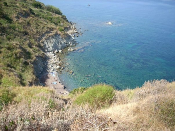 Agropoli — on the Cilentan Coast — in Campania. In Cilento and Vallo di Diano National Park. Image taken last year.